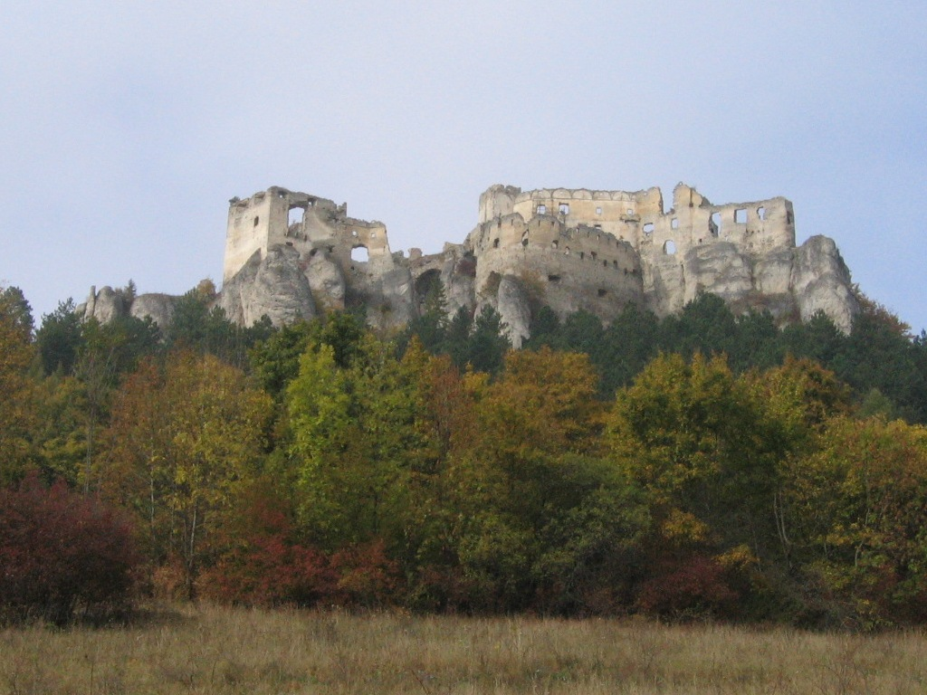 Lietava castle, oktober 2006 author:Juloml